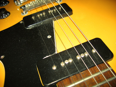 Epiphone Les Paul Special SC TV Yellow, Limited Edition See the dust? I need to play more.